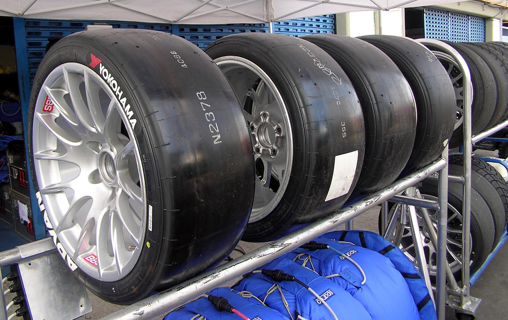 World Touring Car Championship 2006: Yokohama ADVAN tires